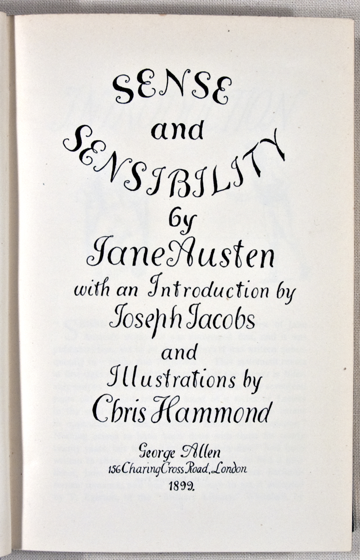 Title page from Austen, Jane. Sense and Sensibility. London: George Allen, 1899.